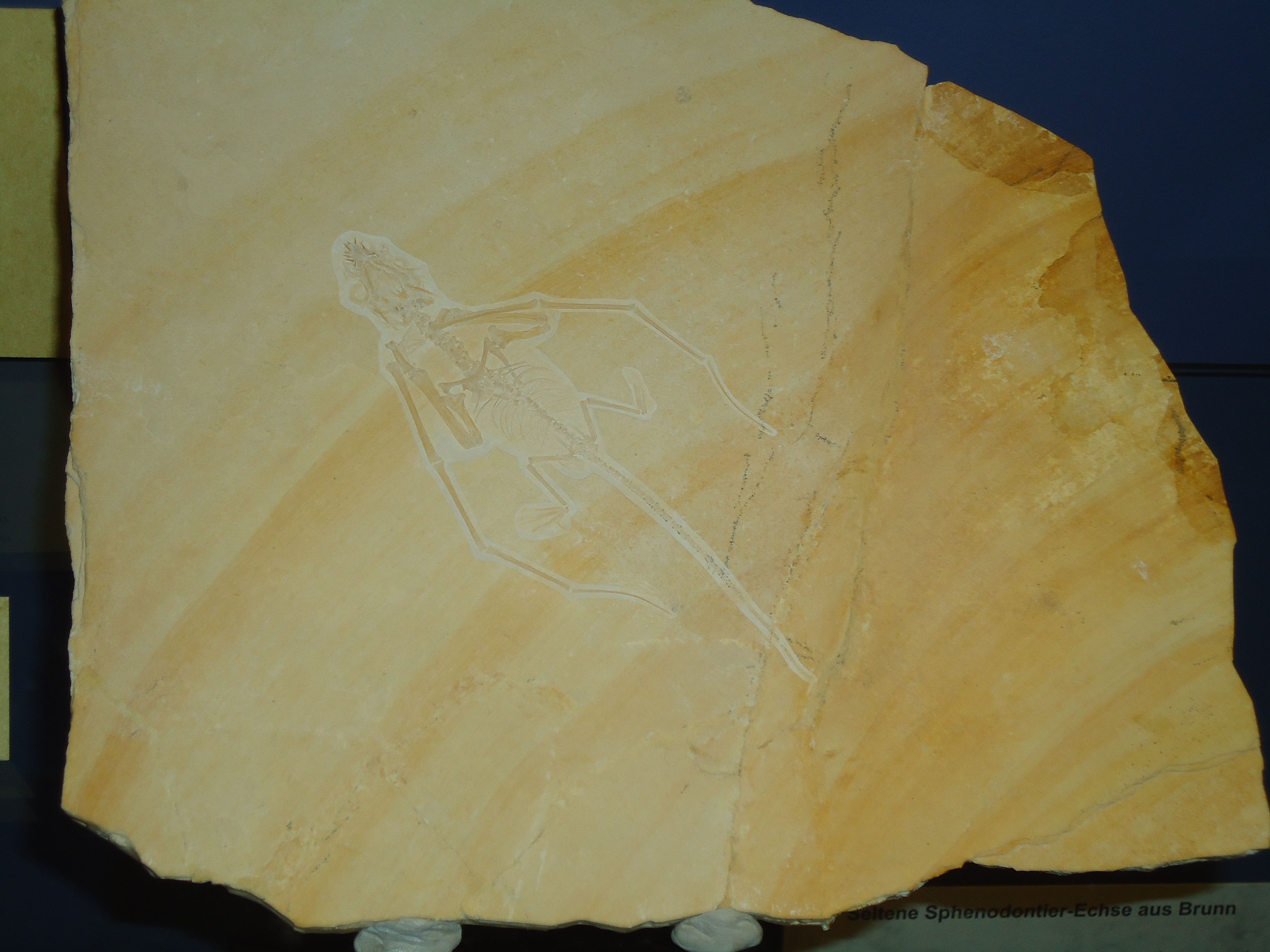 A previously undescribed species and genus of Rhamphorhynchidae, found in the Plattenkalk of Brunn, Germany. Naturwissenschaftliche Sammlung Bürgermeister-Müller-Museum Solnhofen; Bayerische Staatssammlung für Paläontologie und Geologie. Inv.-Nr. BSP XVIII – VFKO – A 12. Taken at the Naturkundemuseum Ostbayern.